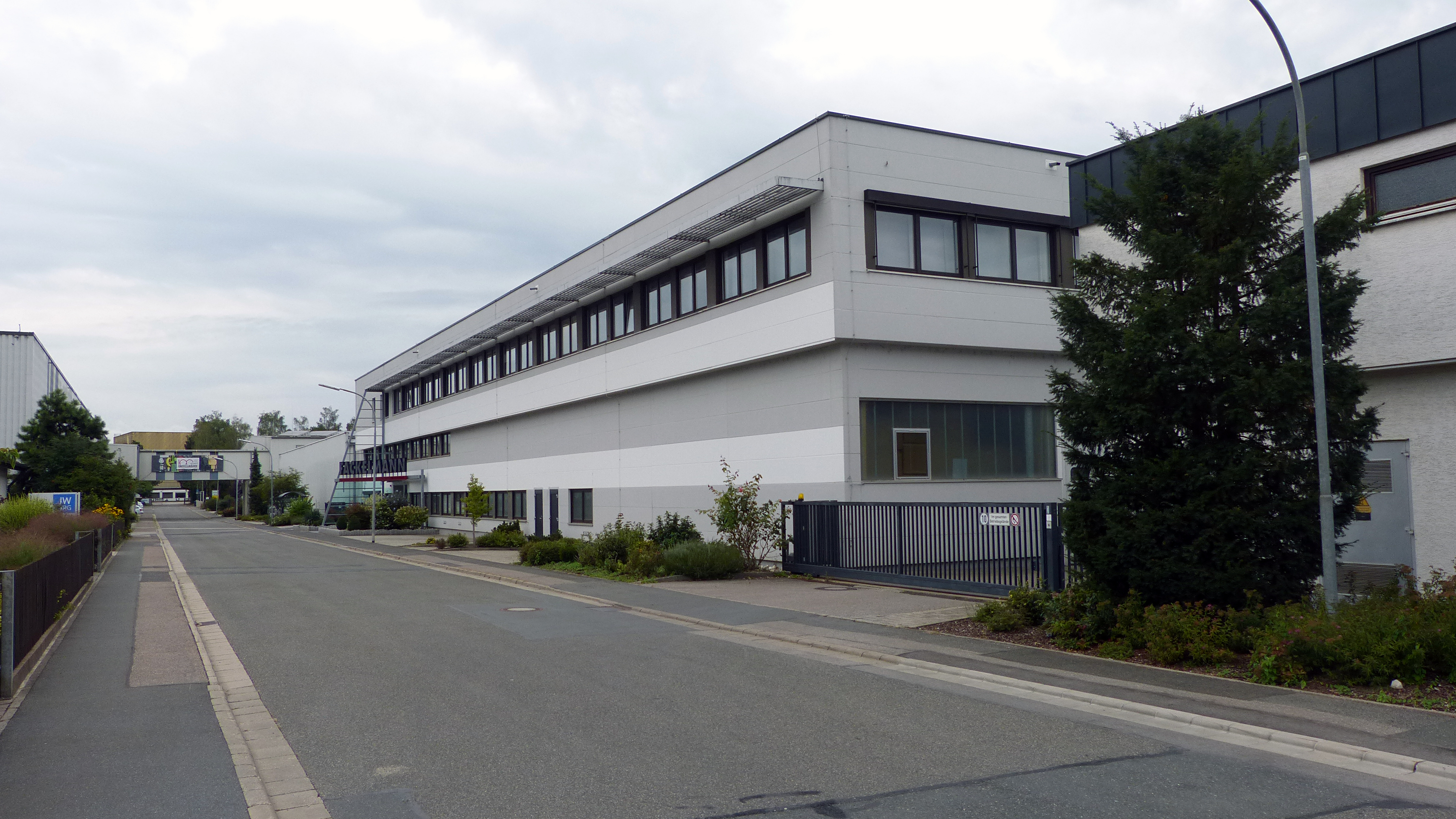 Factory building of Fackelmann in Hersbruck, Bavaria